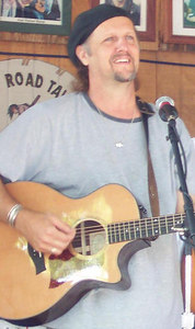 Jimmy LaFave at the Woody Guthrie Folk Festival - Okemah, OK.